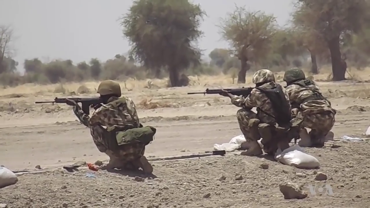 For the first time in years, the Nigerian Army conducted military drills in the Sambisa Forest which previously had been a stronghold for Boko Haram. For VOA, Hussaina Muhammad was given a rare access to the exercises in Maiduguri. Salem Solomon has the report. Live fire exercice